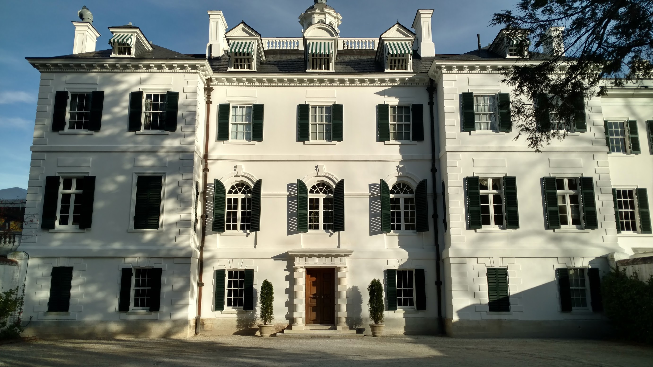 Edith Wharton's House, The Mount, Lenox, Massachusetts